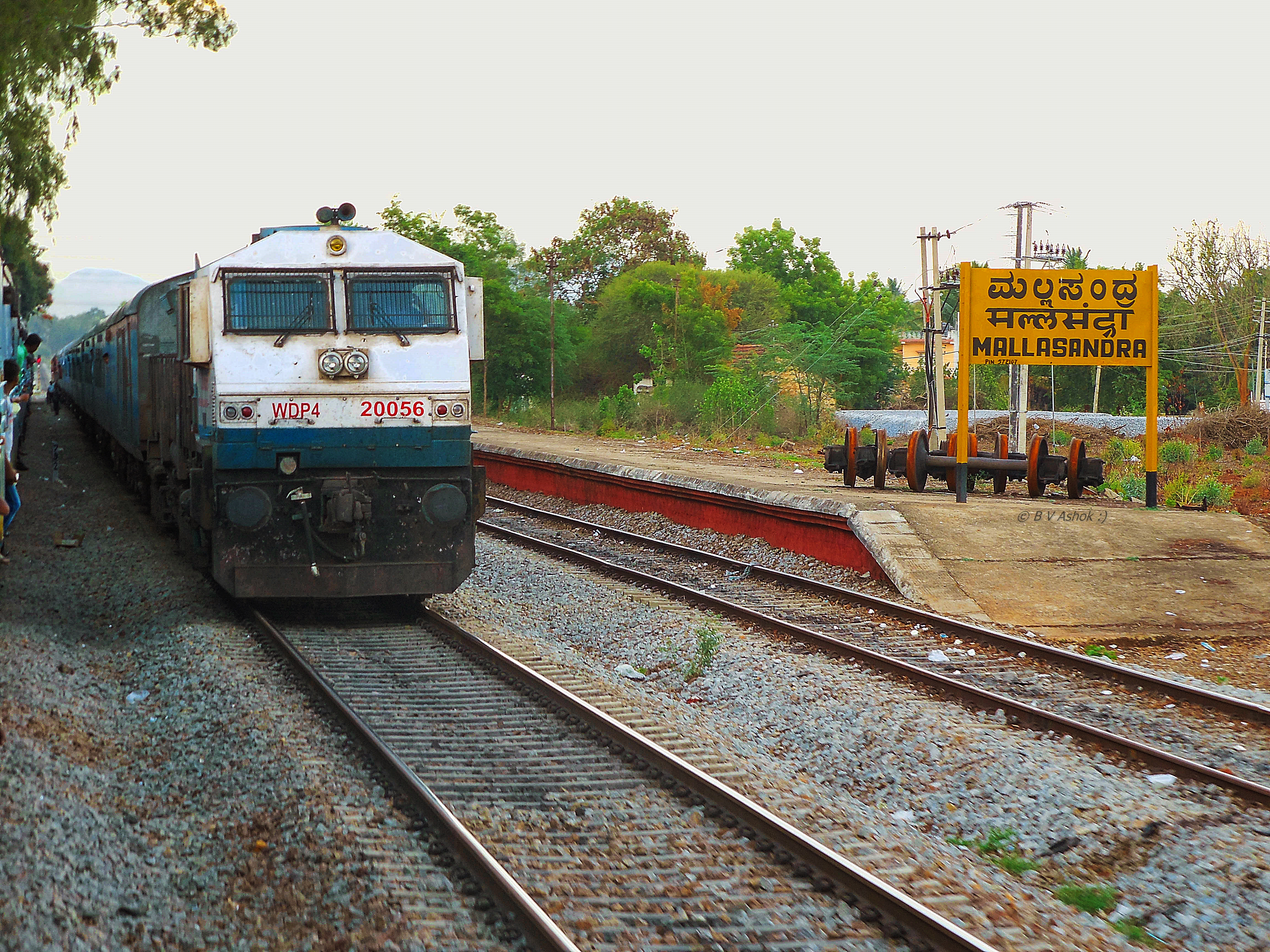 KJM WDP-4 20056 waiting for green signal at Mallasandra with 16577 Yeshvantapur - Harihara Intercity Express....